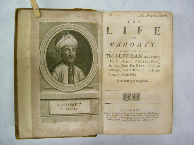 A drawing of Muhammad in The Life of Mahomet, by A. du Ryer, published 1719. Source: Mohammed Image Archive